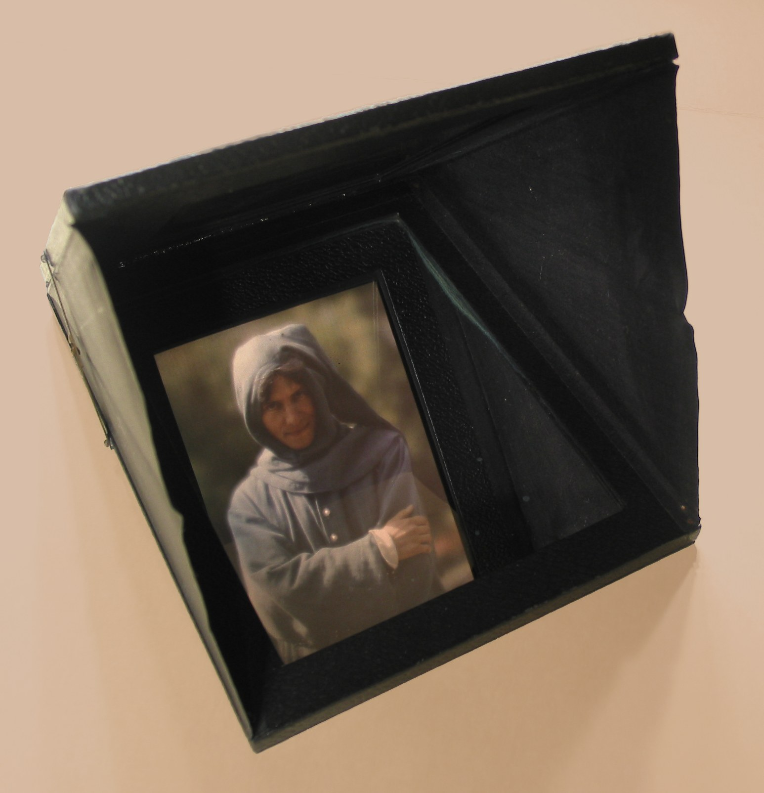 Mirror view in diascope of an autochrome of Percy MacKaye (1875–1956) as Alwyn, the poet, a character in Percy MacKaye's play Sanctuary: A Bird Masque, in rehearsal for first performance at the Meriden Bird Club sanctuary dedication in New Hampshire. The original is a photograph: autochrome, color; 5×7 in. The play, written in verse, told of a hunter’s redemption by his prey, the Bird Spirit. At a time when demand for feathers in hats and other products was harming entire species, the play helped promote the wild bird conservation movement.[1]